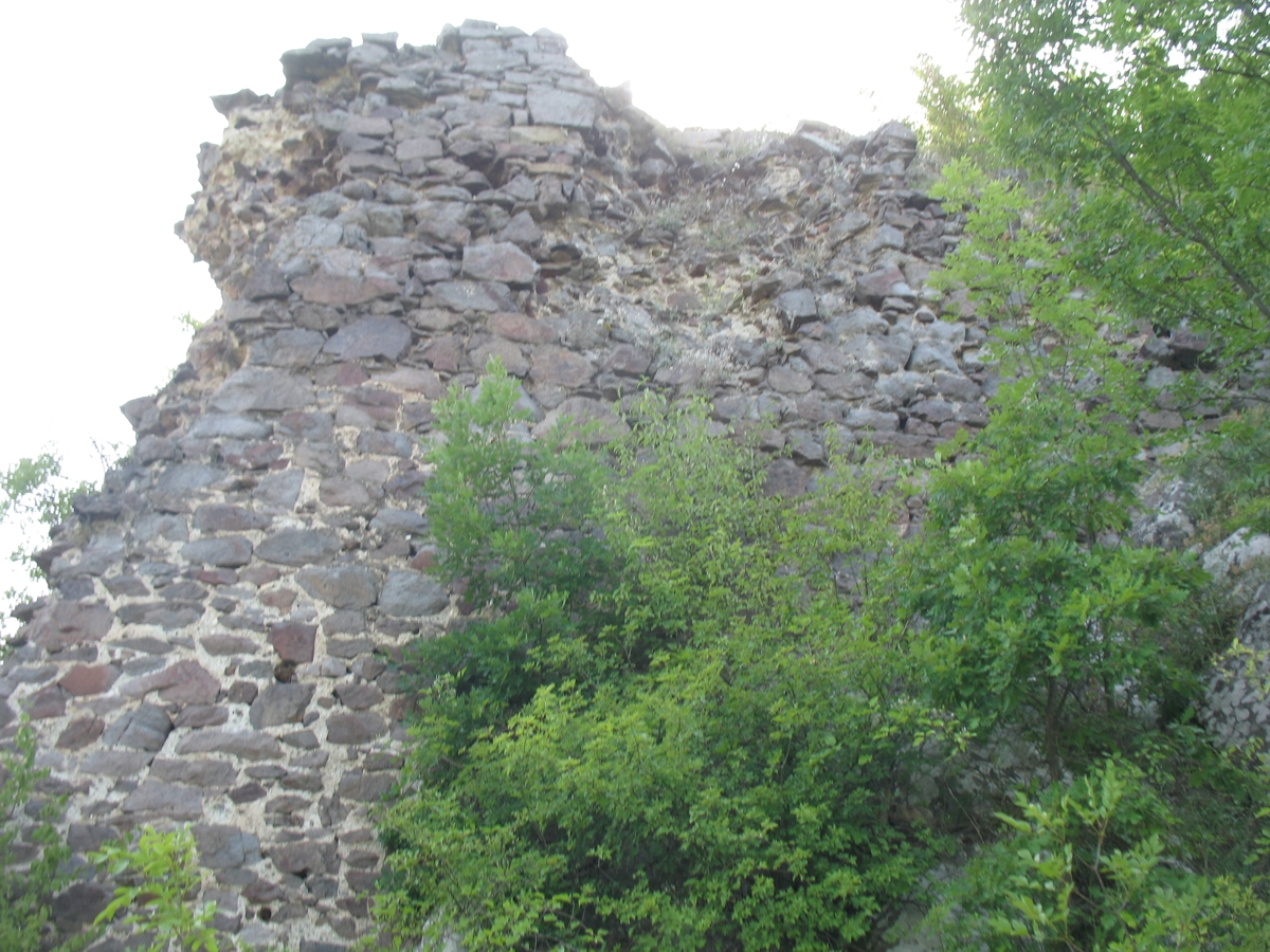 Remains of Brvenik fortress,above Ibar river,Raška municipality,Serbia.